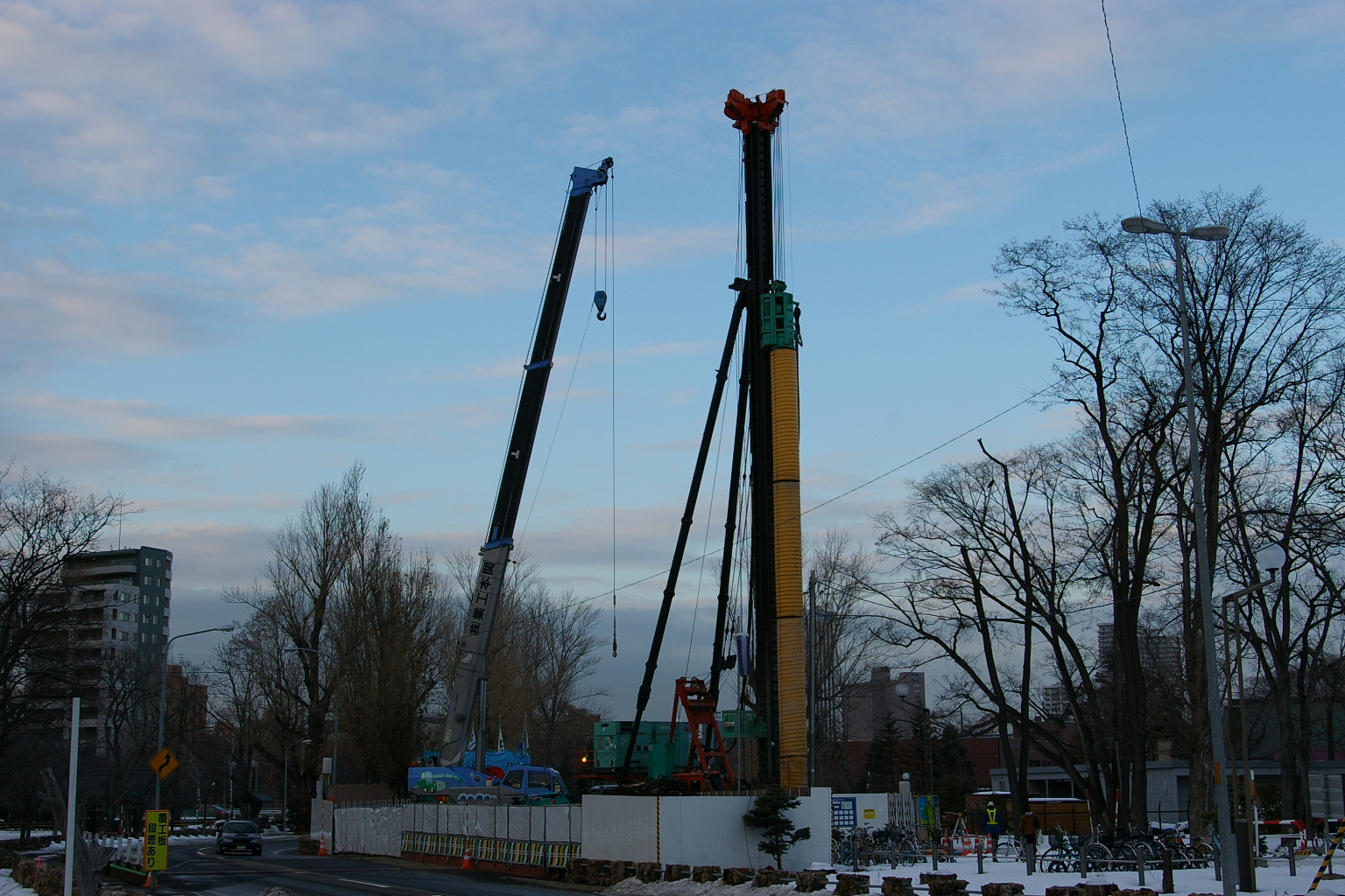 The Pile driver & Rough terrain crane under work in the Nakajima park in Sapporo city.